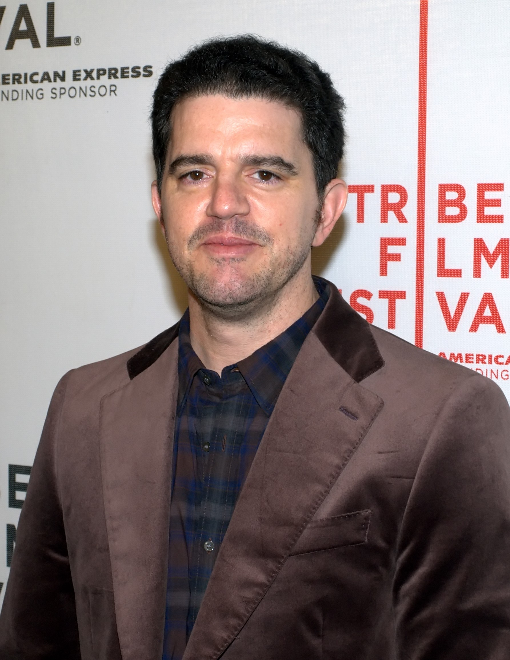 Aaron Schneider at Tribeca Film Festival 2010